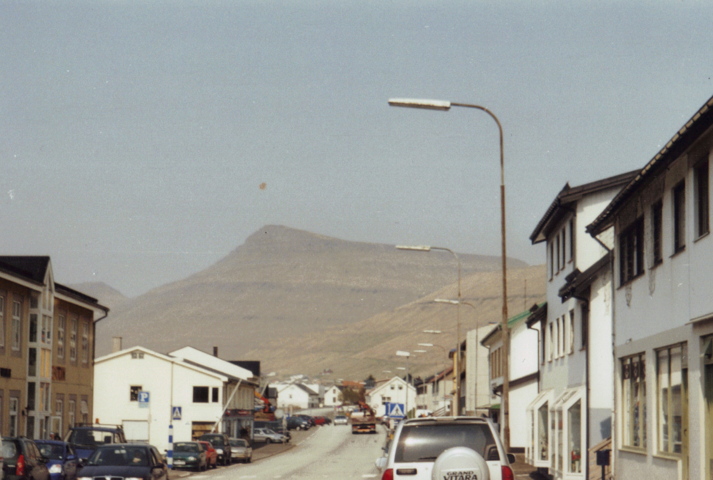 Runavík, Main Street, Eysturoy, Faroe Islands